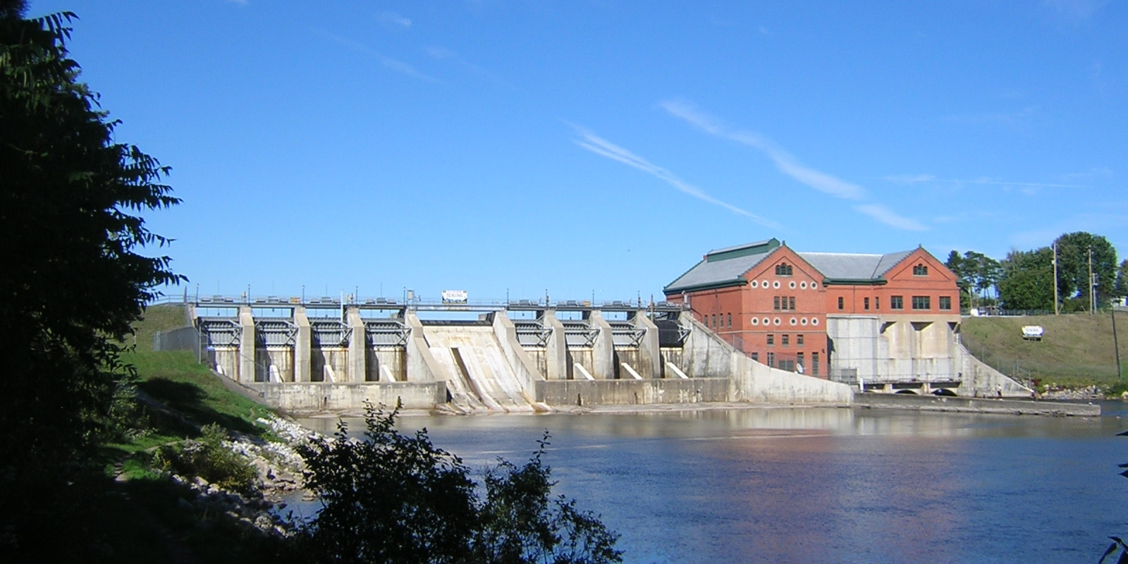 A view of or related to the Croton Dam, a dam and powerplant complex, built 1907, on the Muskegon River in Croton Township, Newaygo County, Michigan. This image is of the spillway, control gates and powerhouse, from downstream, near location B, facing NNE. Little or no water is flowing through the control gates or spillway.